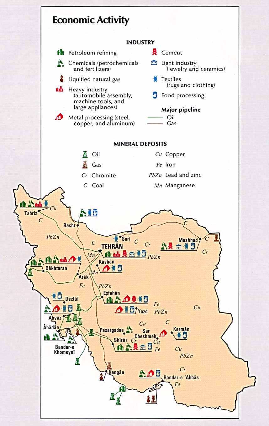 Economic activity - Iran